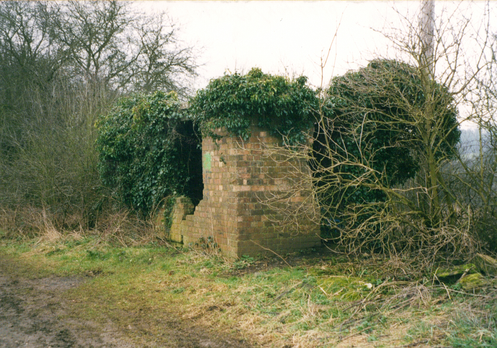 Wroxton's OIR P-hut, Oxfordshire in 2005. At the far right is a pile of rubble where a signal post used to be.